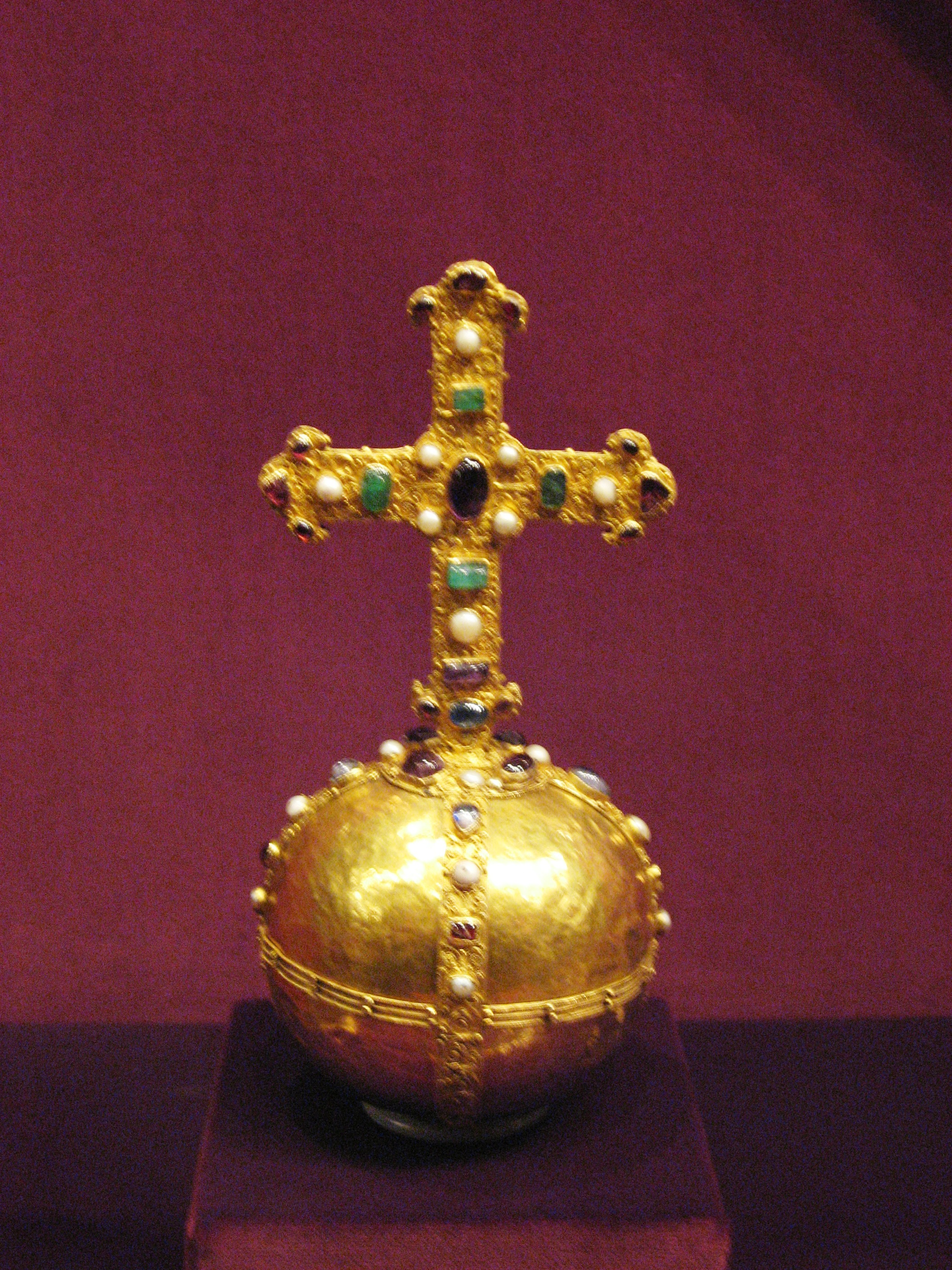 Imperial Orb of the Holy Roman Empire